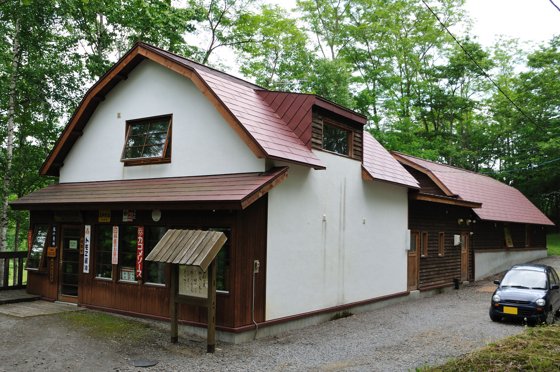 Shiokari mountain pass memorial hall, Wassamu, Hokkaido, Japan